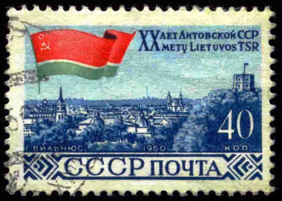 Soviet Union stamp, 20th anniversary of Lietuva Soviet Socialist Republic, Vilnius, 1960, 40 kop., used, CPA No. 2447.